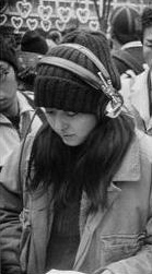 photo of Mika G. Yamaji